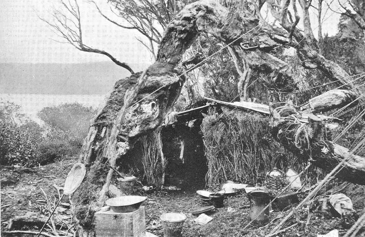 Hut Built by Shipwrecked Sailors of the "Anjou" in Carnley Harbour Used as camp kitcchen by the Auckland Island party Subject: Survival after airplane accidents, shipwrecks, etc.--New Zealand--Auckland Islands, Auckland Islands (New Zealand) Geographic Subject: New Zeqaland--Auckland Islands--Carnley Harbour Tag: Coasts